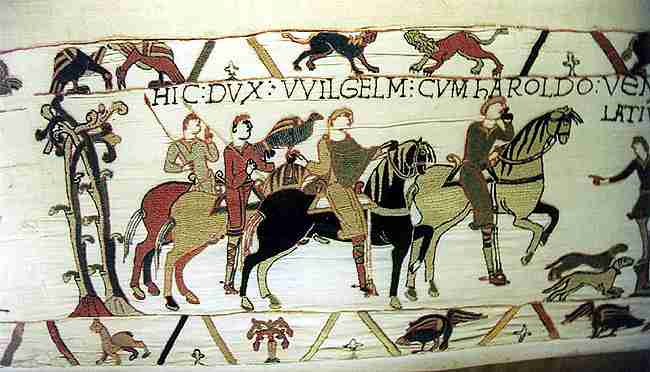 Hunting scene from the Bayeux Tapestry.